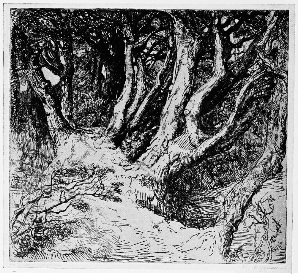 Dans le Hagdigue, original etching printed by Edmond Sagot in Paris.